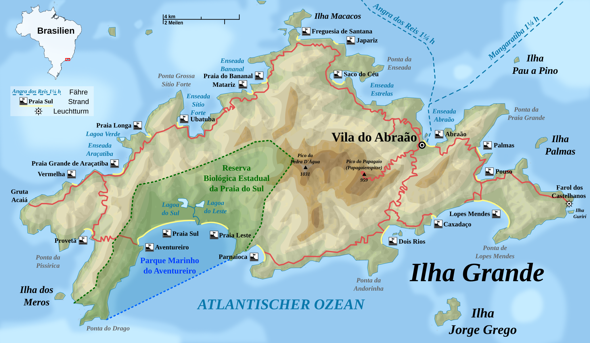 Detailed topographic map in German of Ilha Grande